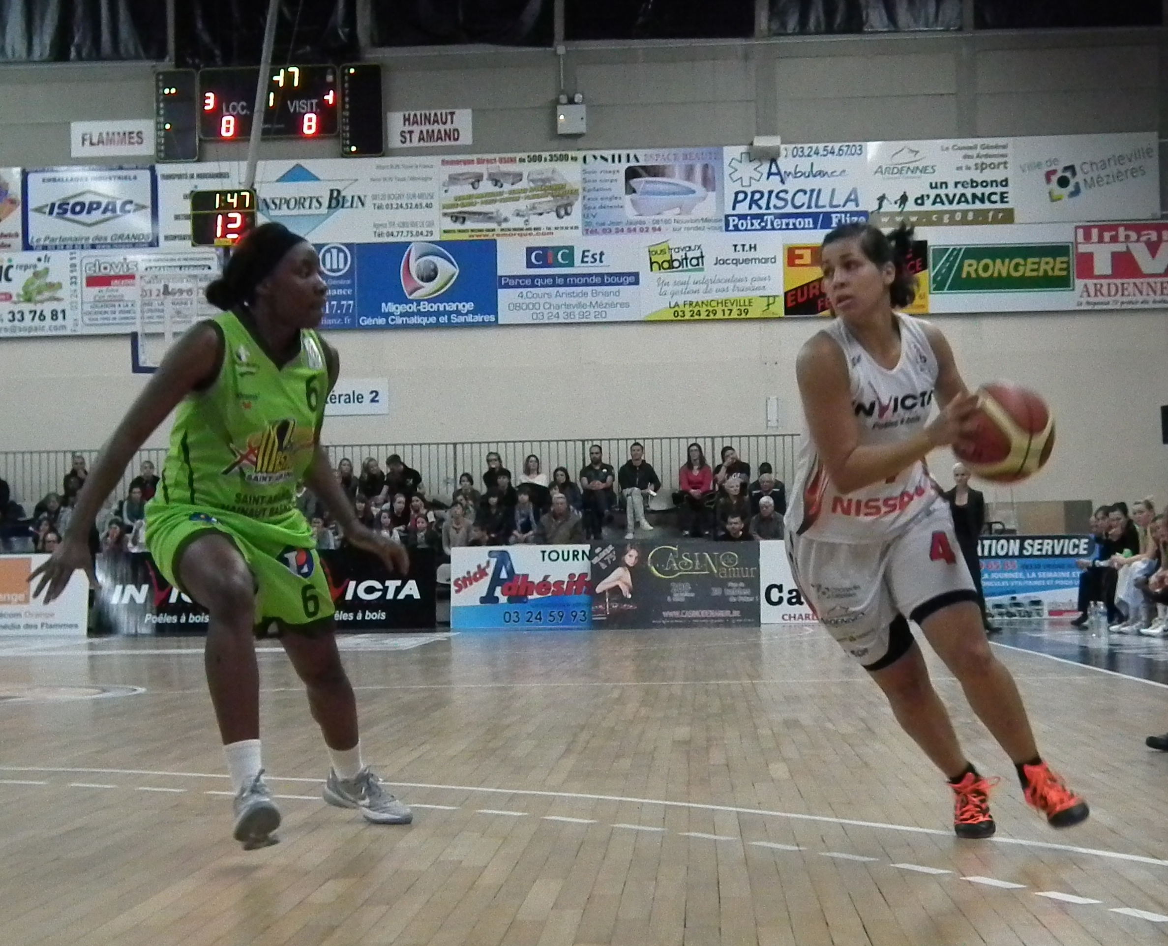 Amel Boudera (right, white shirt), point guard of Flammes Carolo basket (French 1st division), in a game against Le Hainaut-Saint-Amand (same division).